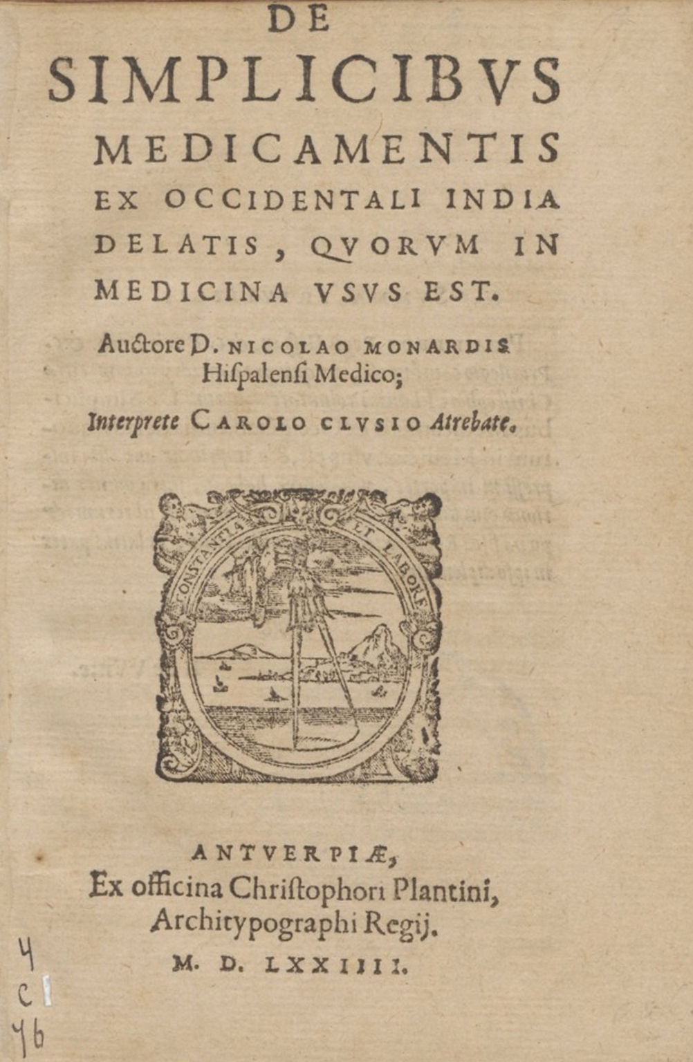 Page from the first (1574) Latin edition of Monardes' Historia medicinal, originally published in 1565